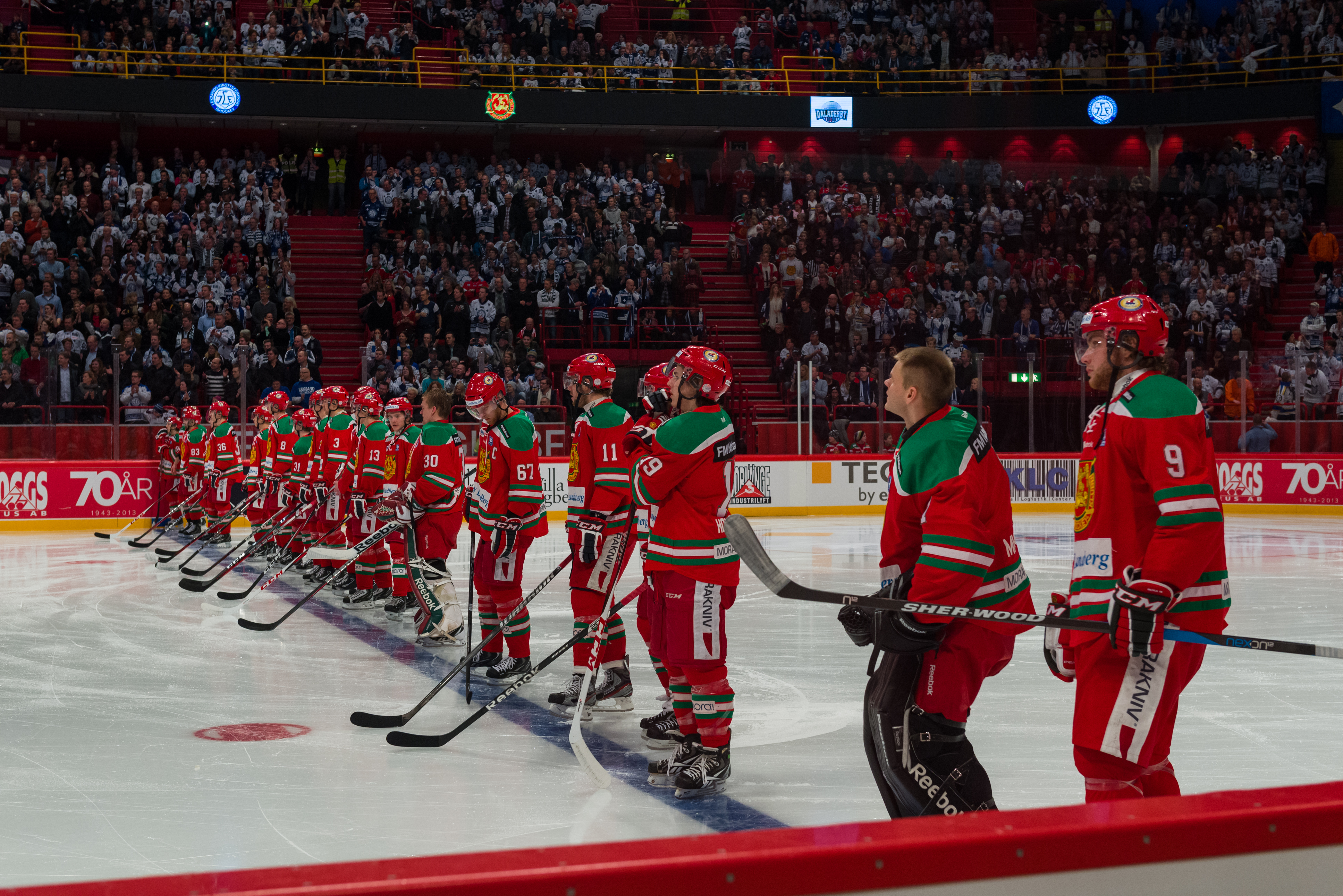 Mora IF. Match between Leksand and Mora in Hockeyallsvenskan (Swedish second league), Stockholm 2013-01-05.